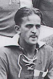 Finnish international player Frans Karjagin. Cropped from File:FIN-NationalFootballTeam1933.png